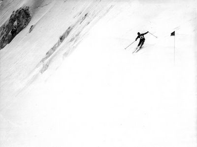 April 16,1939 Inferno Race Shattering the Record by Schussing the Headwall Matt shown here as he turned into the ravine